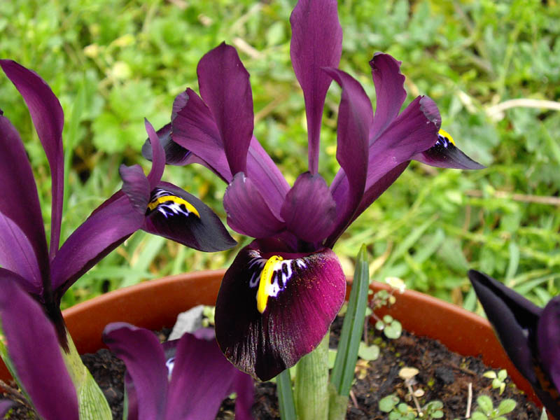 Iris histrioides 'George'